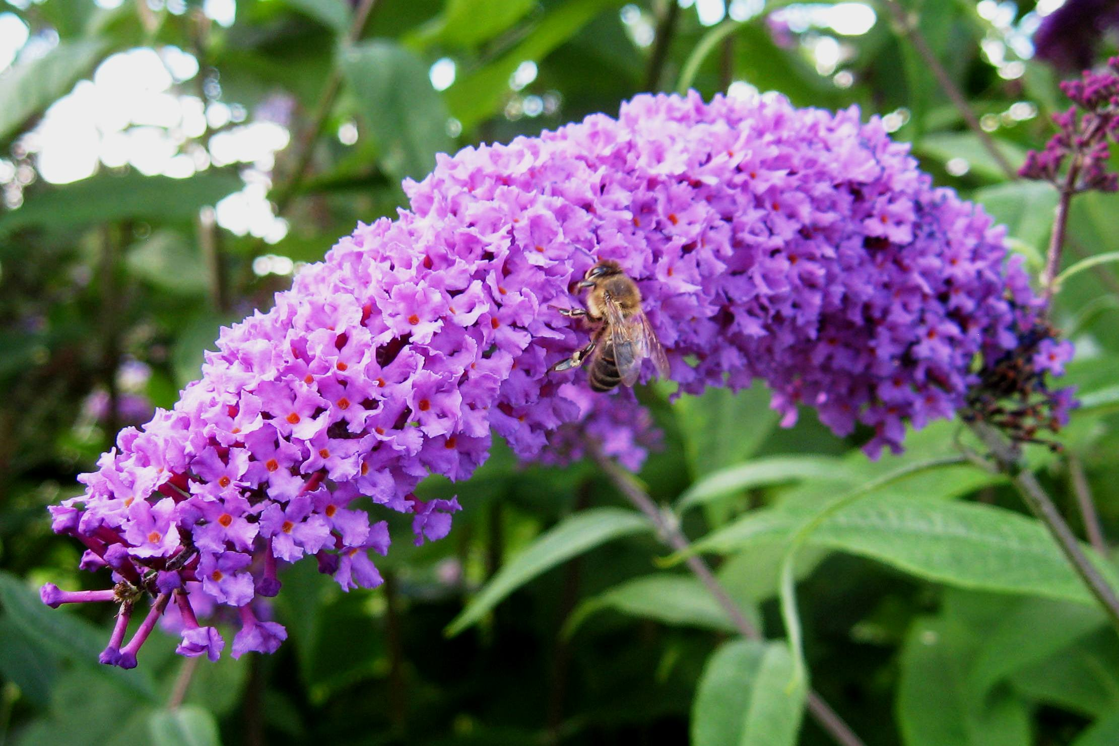 Photo of Buddleja cultivar 'Flaming Violet' taken at Longstock Park, UK, August 2012